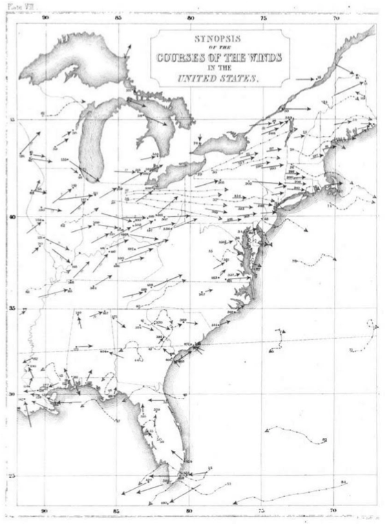 An example of a from James Henry Coffin's Winds of the Northern Hemisphere